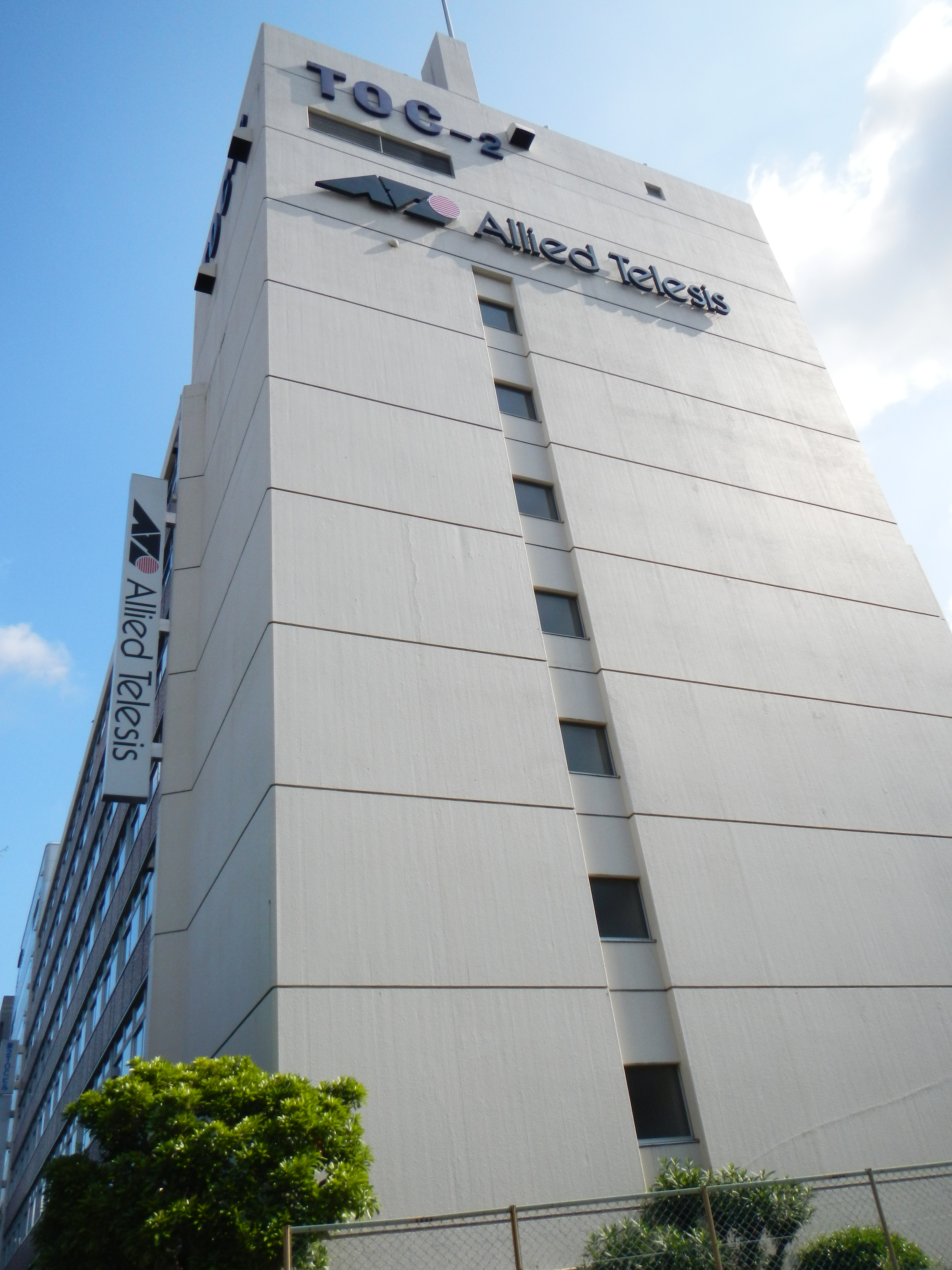 Allied Telesis HQ Building at Gotanda, Tokyo.